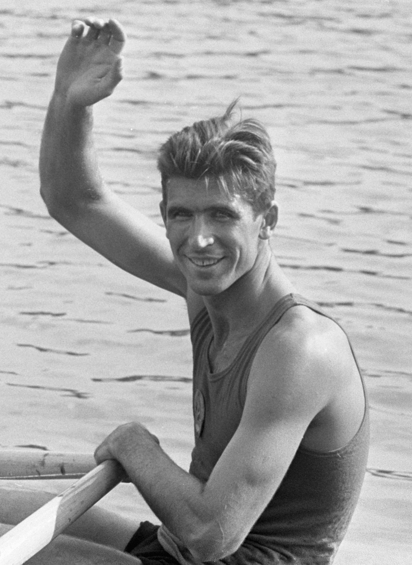 roeikampioenschappen, Rus Ivanov